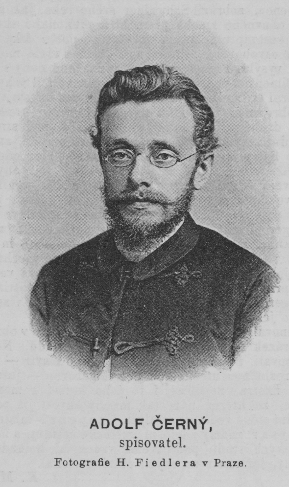 Portrait of Adolf Černý (1864 - 1952), Czech poet and professor of Slavonic studies.